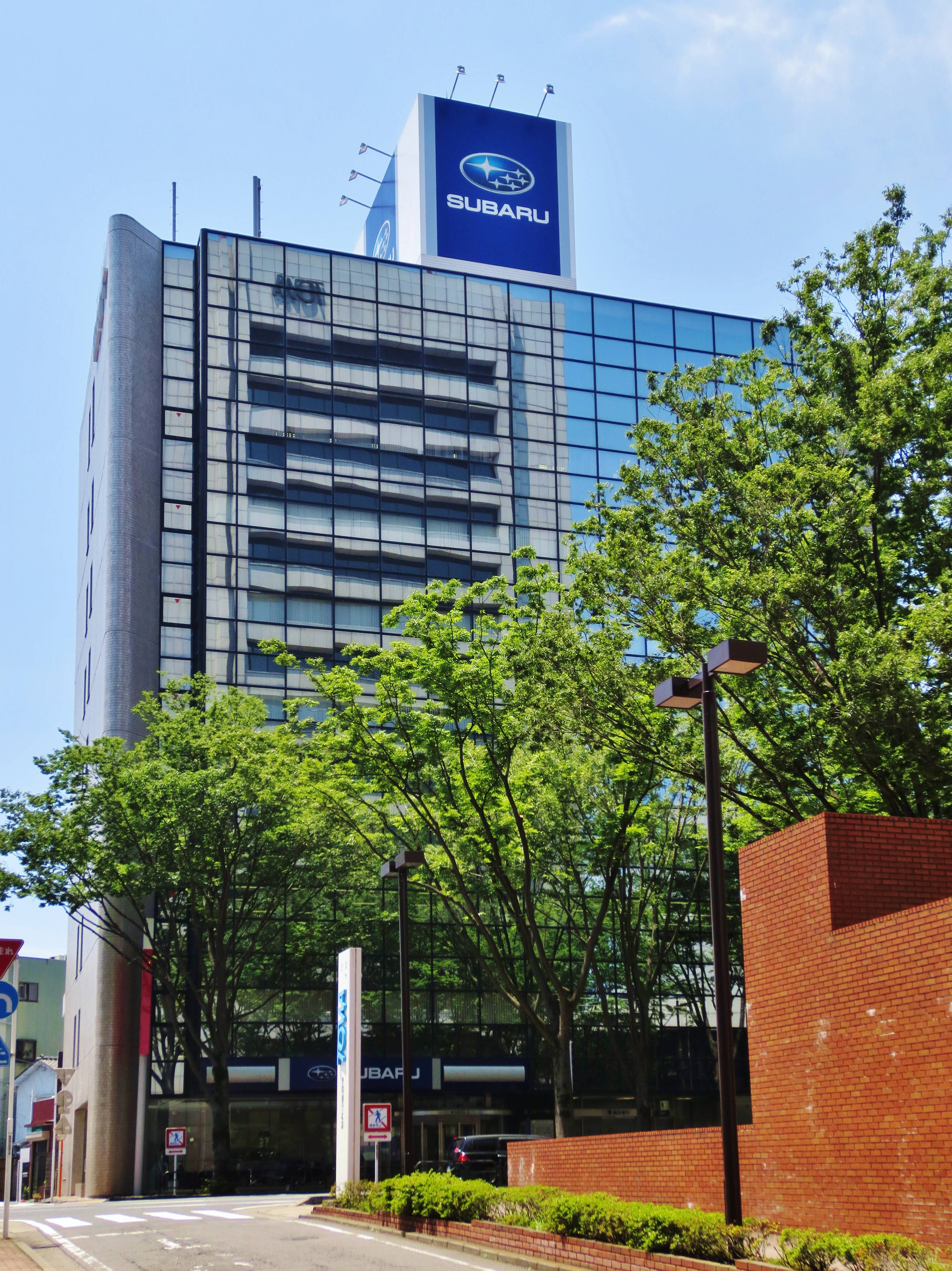 Fuji Auto headquarters (Maebashi, Gunma).